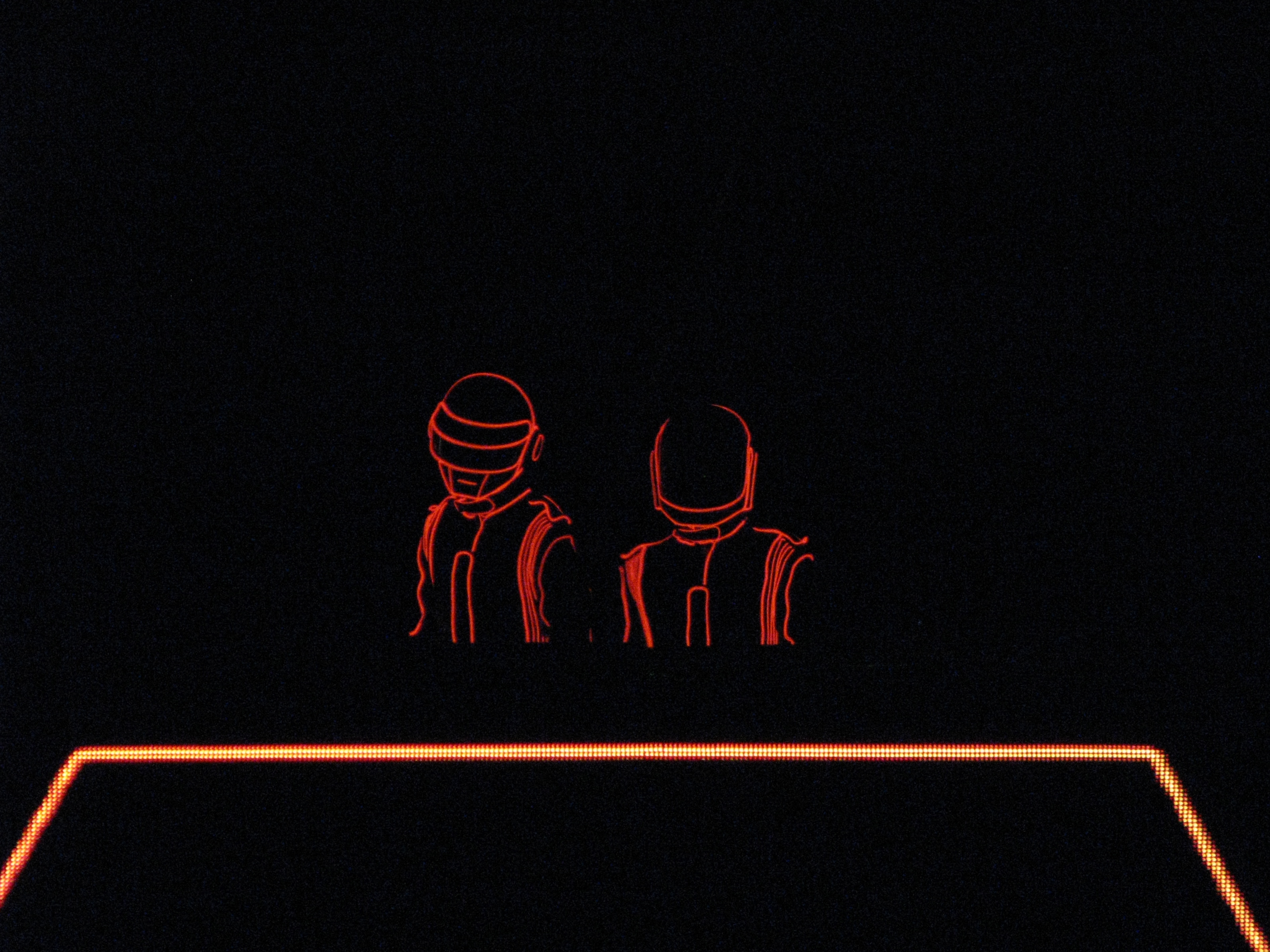 The closing scene from Daft Punk's performance at Sydney's NeverEverLand event.